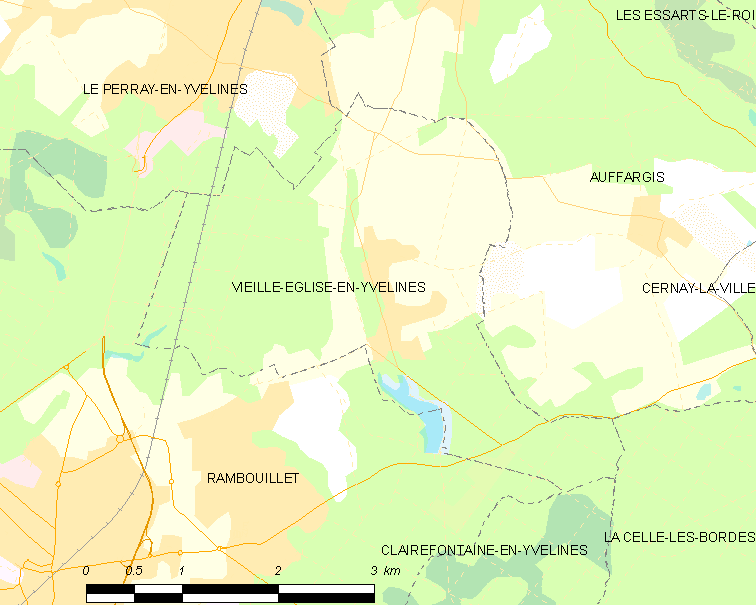 Map of French municipality Vieille-Église-en-Yvelines